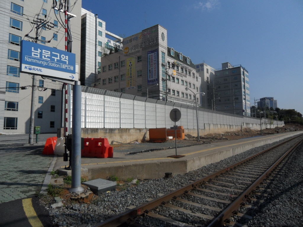 Korail Nammungu Station